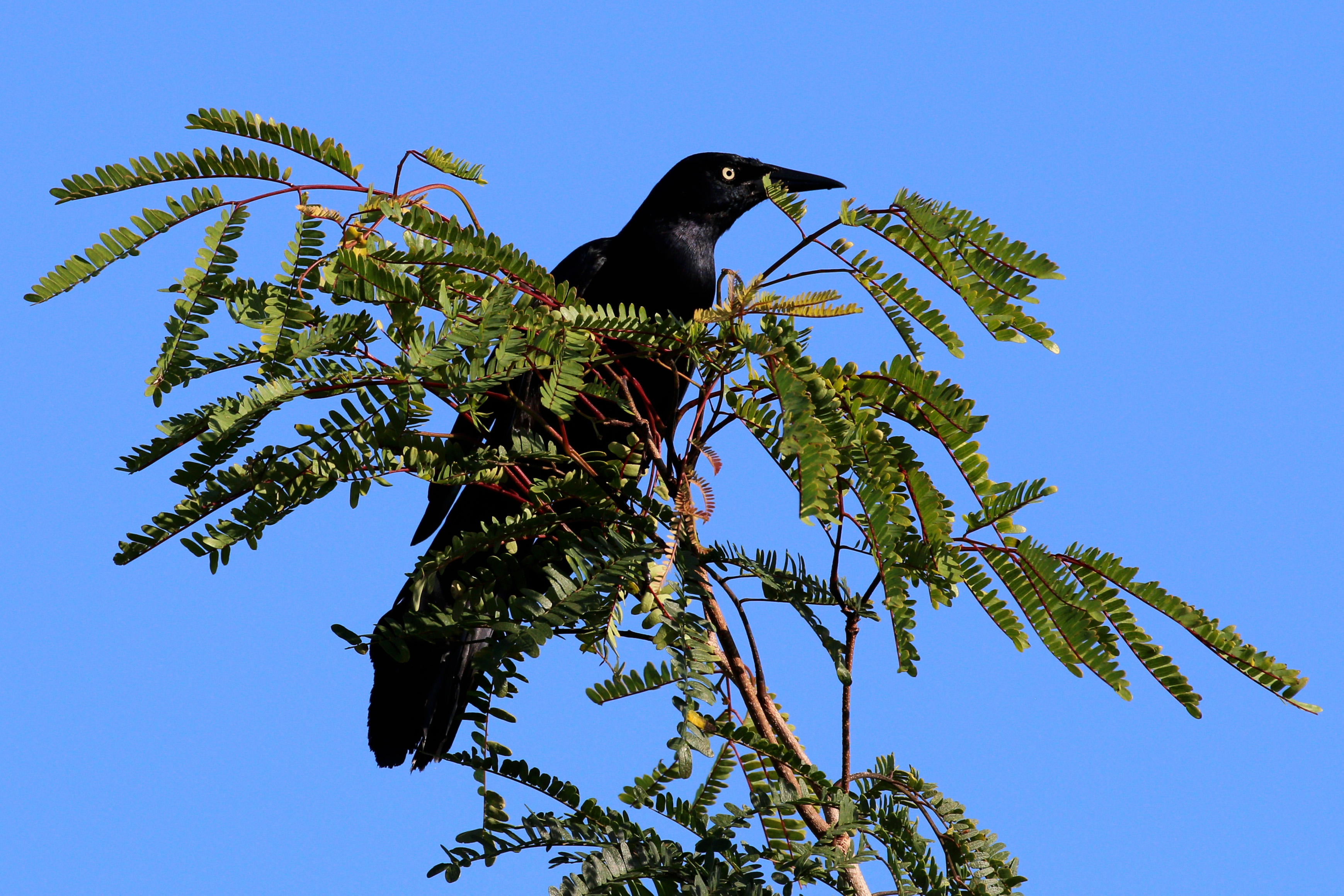 Greater antillean grackle (Quiscalus niger gundlachii), Cayo Coco, Cuba